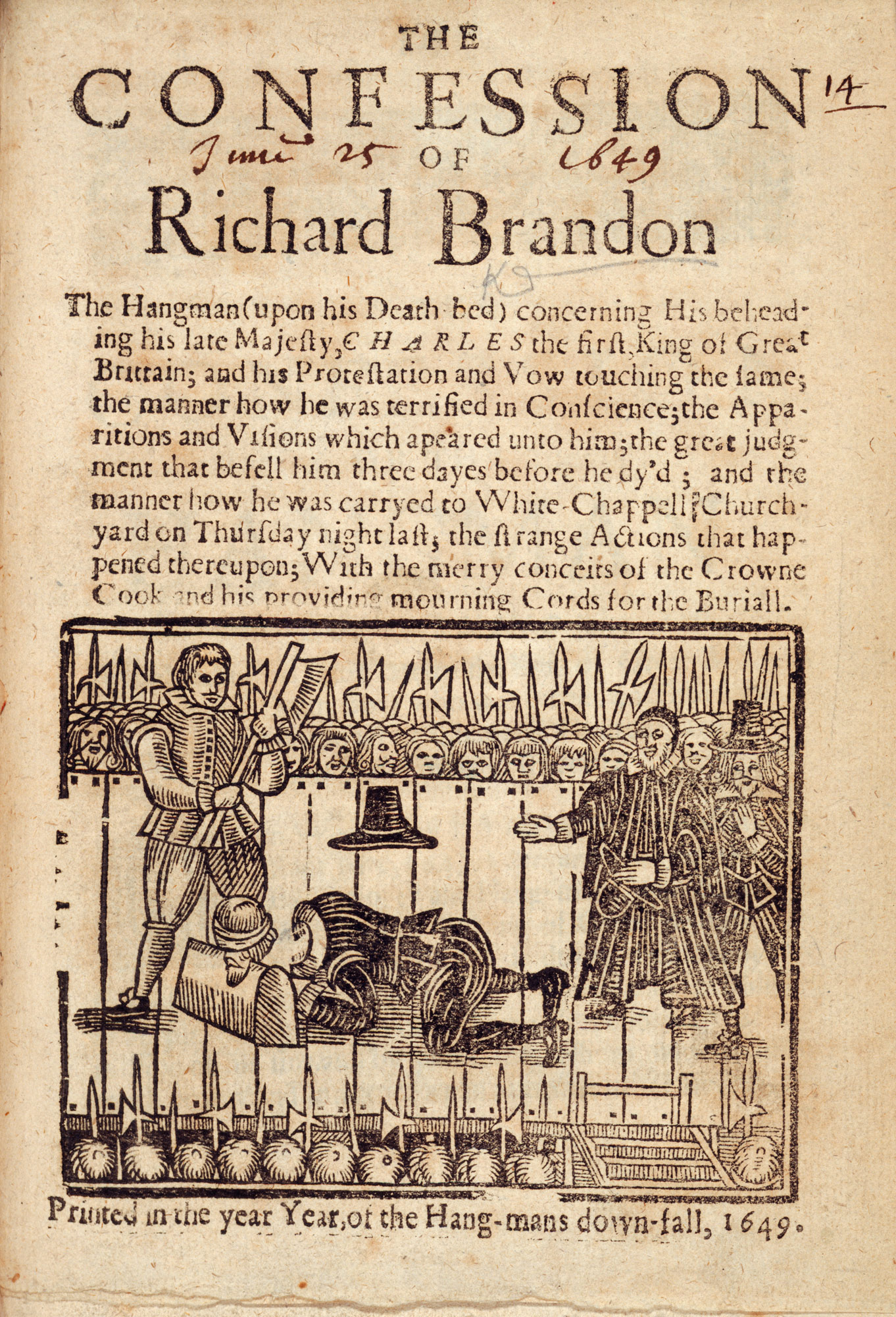 The title page of a 1649 pamphlet claimed to be by the 17th-century hangman Richard Brandon, The Confession of Richard Brandon. Written as a deathbed confession to the regicide of Charles I in 1649. Known to be a forgery. During his life Brandon denied being the executioner of Charles I and the true executioner of Charles I is unknown.